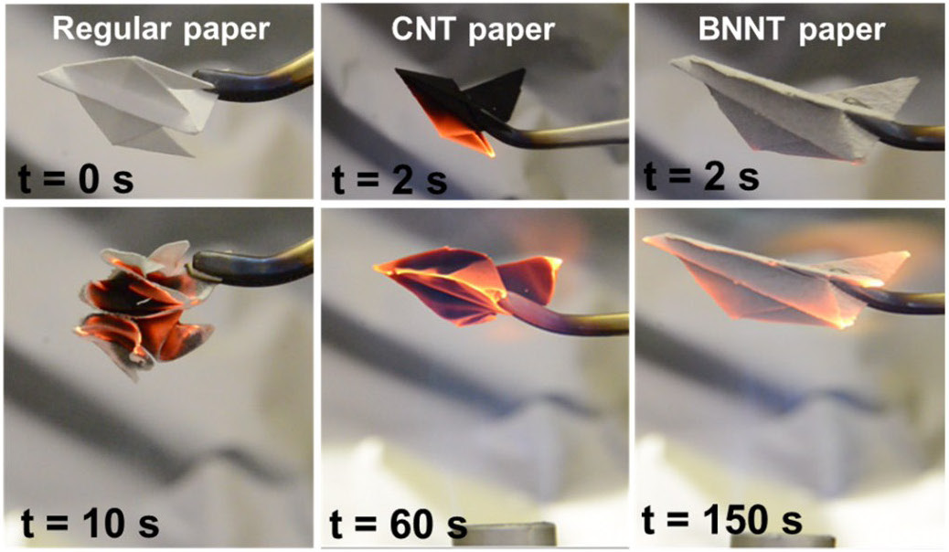 Flame resistance of BNNT paper illustrated by comparison of paper airplanes folded from (a) regular cellulose-based paper, (b) carbon nanotube buckypaper and (c) BNNT buckypaper and exposed to a natural gas flame. The BNNT paper exhibits the highest thermal stability without morphological changes.